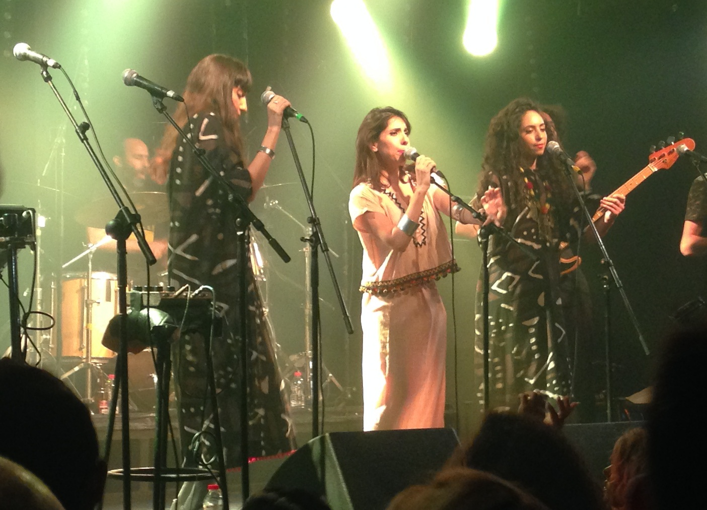 A-WA at the Barbi club, September 15th, 2015